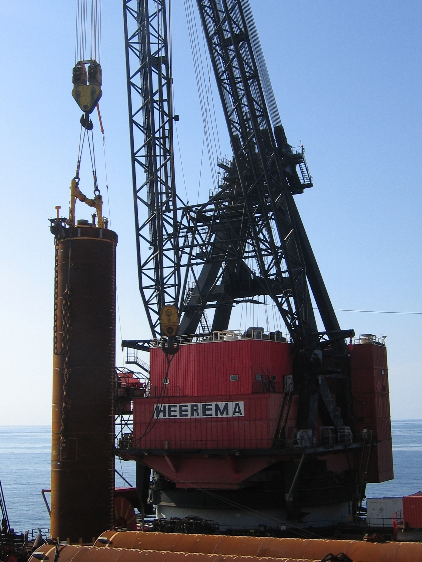 Suction pile for Independence oil platform mooring.